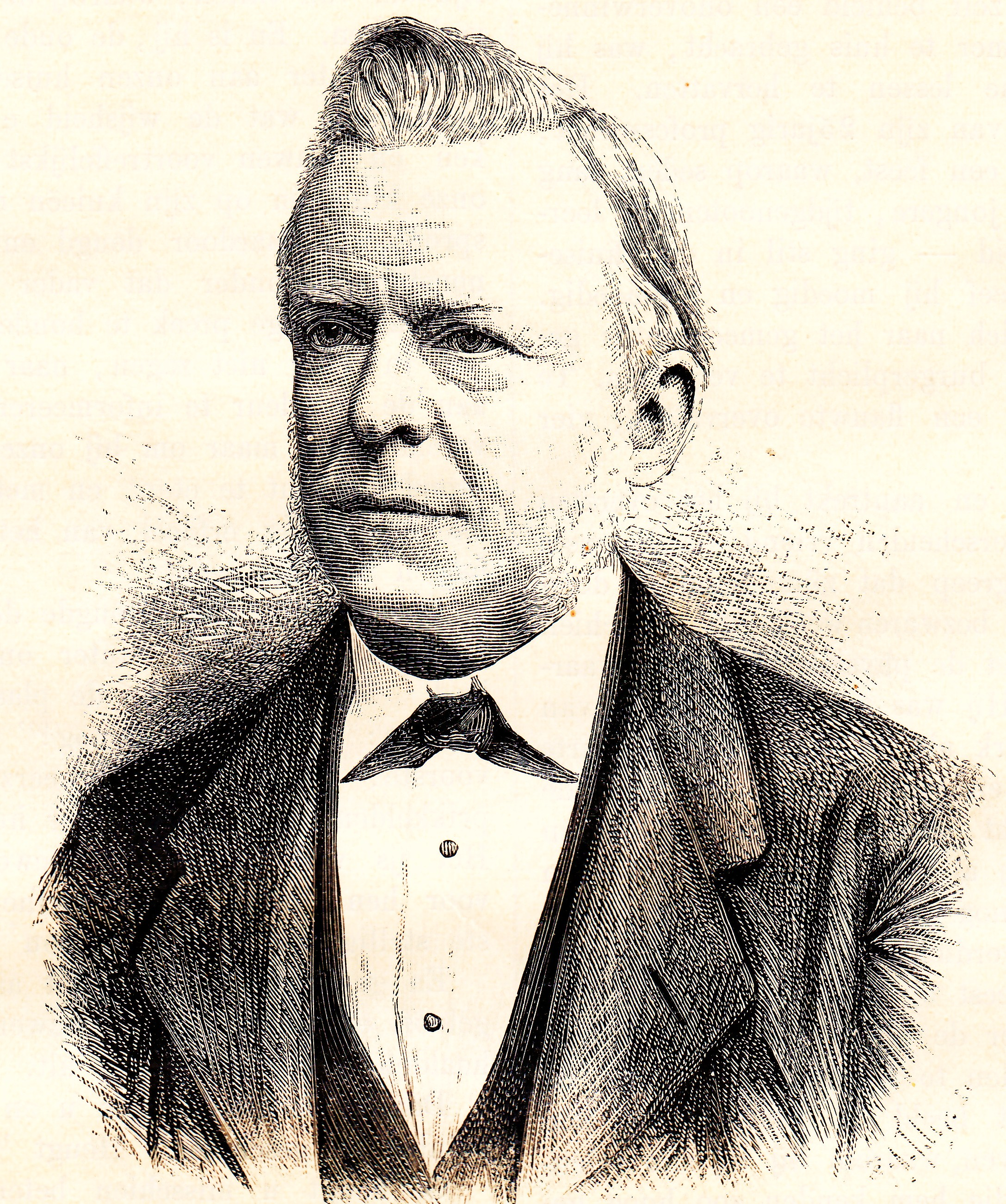 Mr. J.A. Fruin